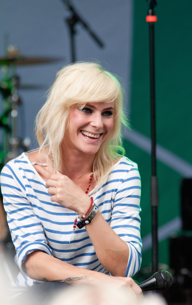 Maja Ivarsson, lead singer of The Sounds